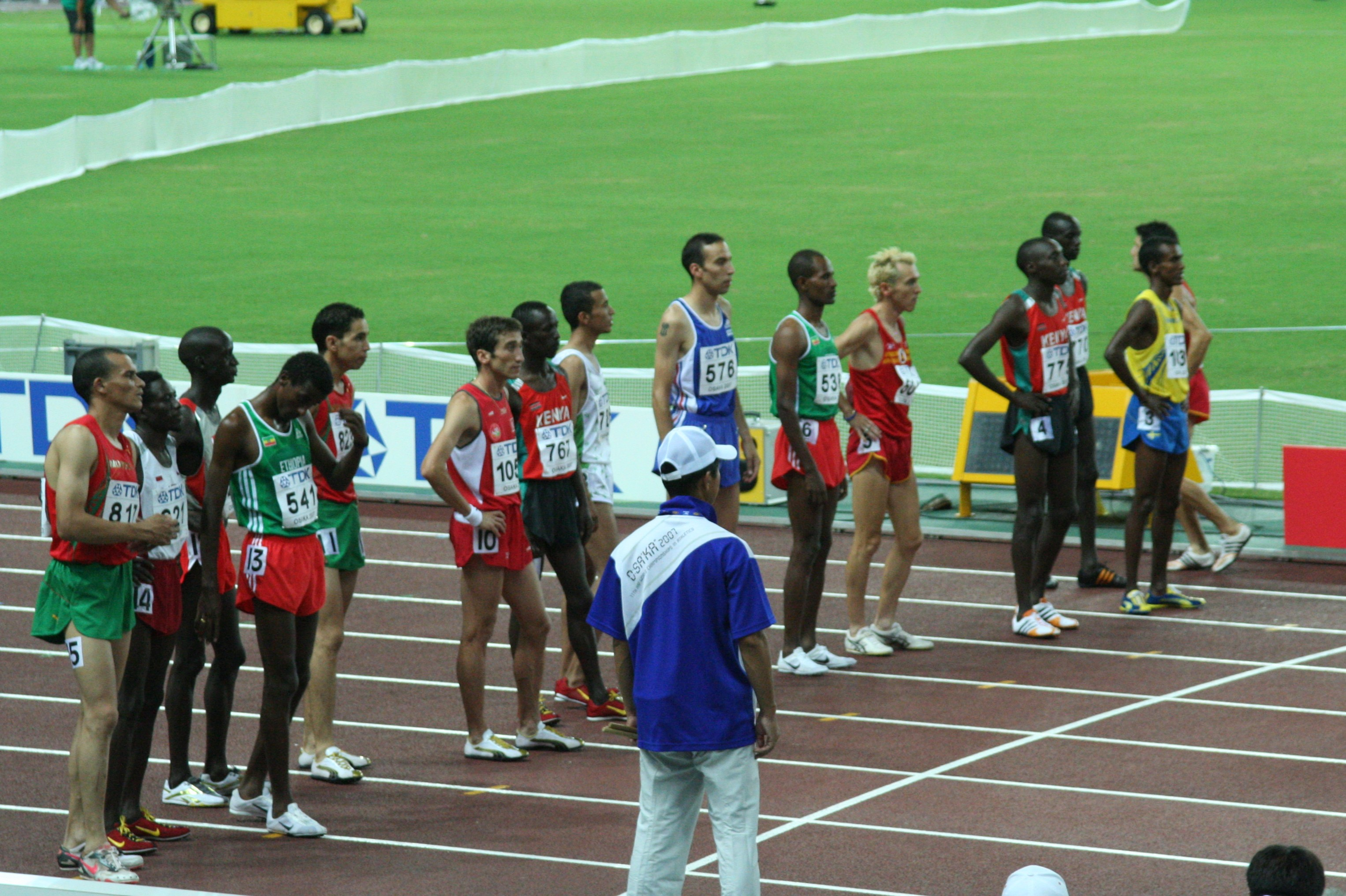 World Athletics Championships 2007 in Osaka - The participants in the men's 3000 metres steeplechase final preparing for the start: Abdelkader Hachlaf, Abubaker Ali Kamal, Tareq Mubarak Taher, Nahom Mesfin Tariku, Brahim Taleb, Halil Akkas, Ezekiel Kemboi, Ali Ahmed Al-Amri, Bouabdallah Tahri, Roba Gary, José Luis Blanco, Richard Kipkemboi Mateelong, Brimin Kiprop Kipruto, Mustafa Mohamed, Eliseo Martín